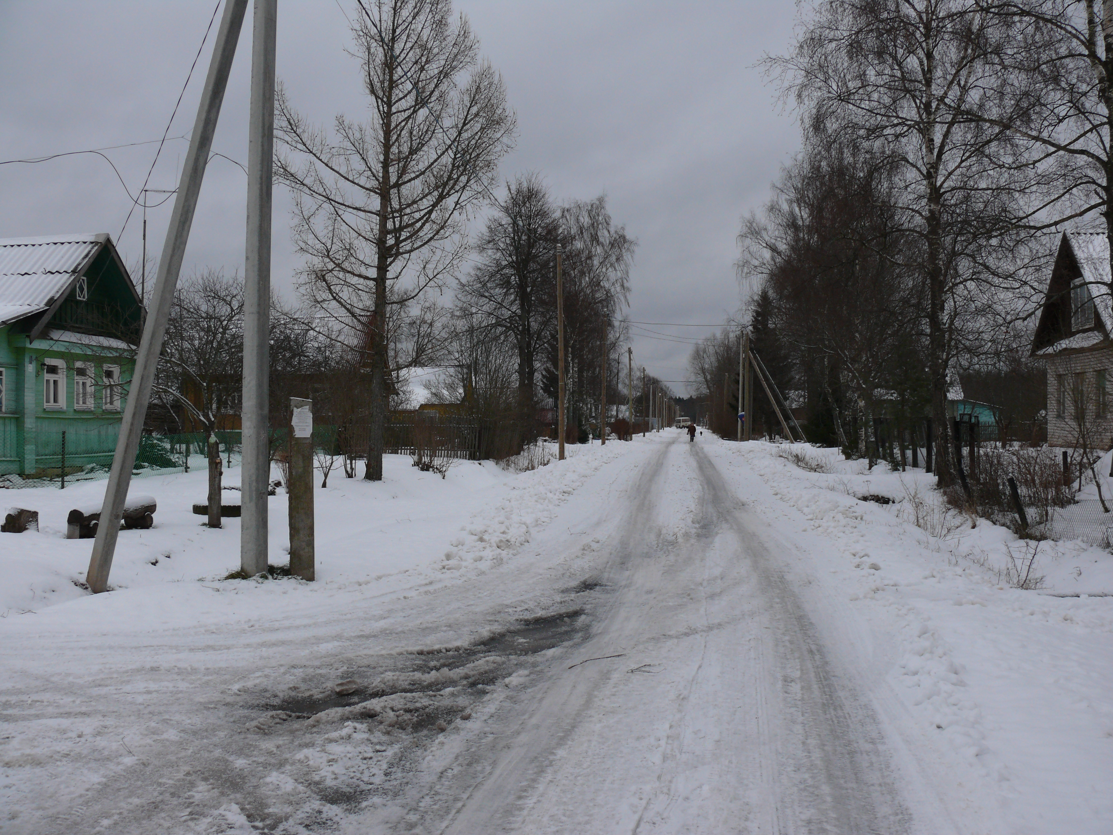 Gubariovo village. Novgorodsky District, Novgorod Oblast, Russia